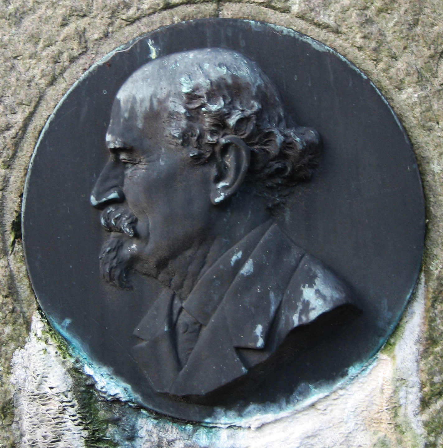 Portrait relief of swedish entomologist Carl Gustaf Thomson (1824-1899). Photo taken at Norra kyrkogården, Lund, Sweden 090111 by the uploader.